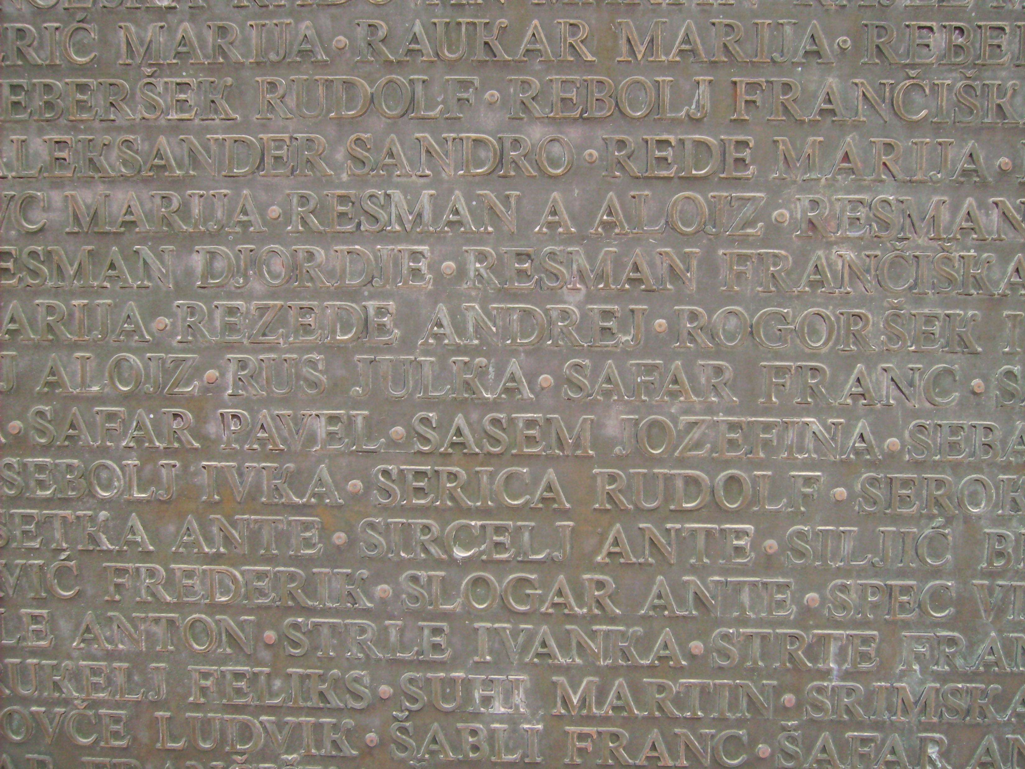 Names of victims on the slovenian part of the monument